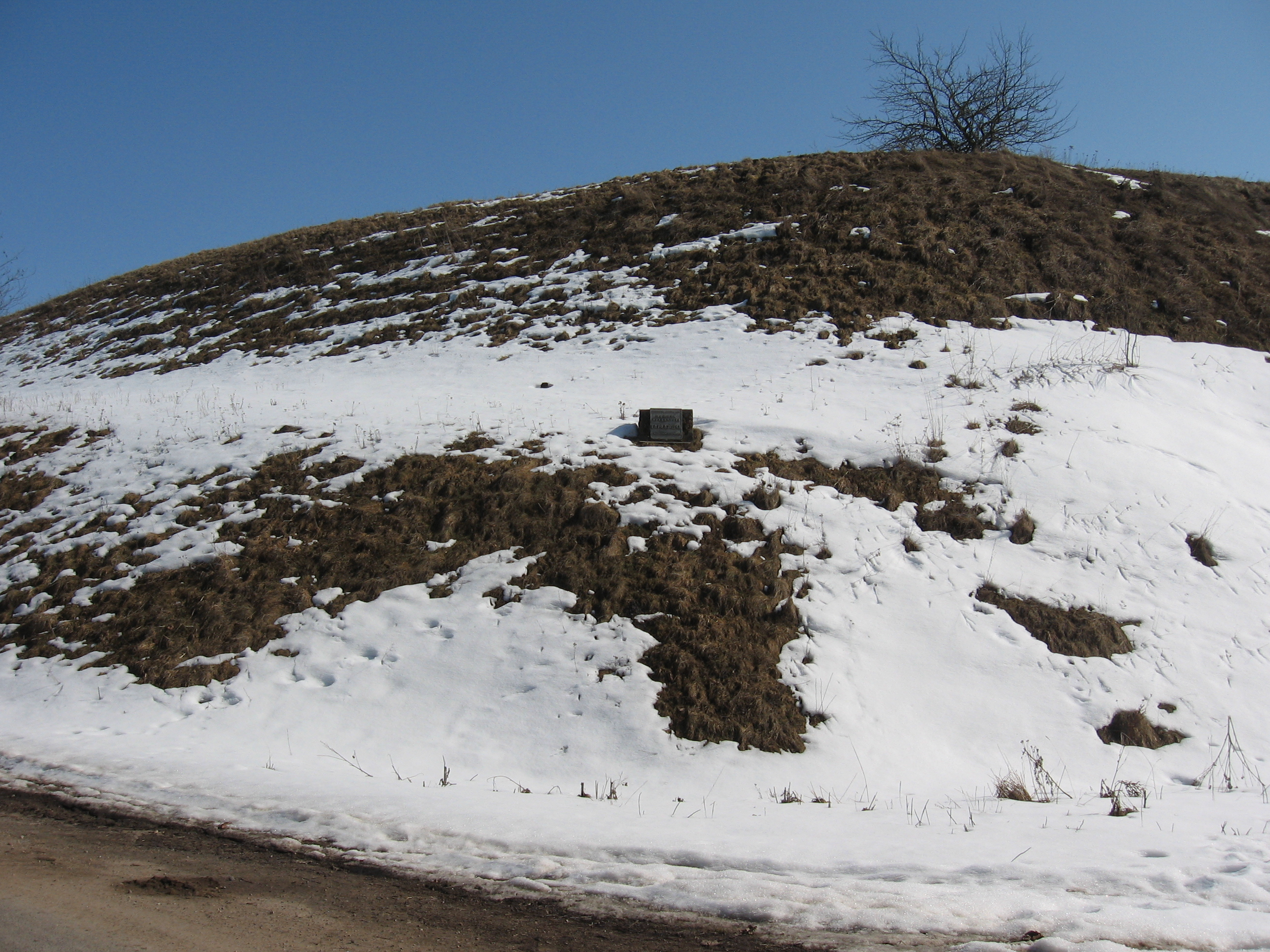 Беларуская (тарашкевіца): Гарадзішча. в. Лоск This is a photo of Belarusian heritage monument. Reference number: 613В000092 ( WLM)